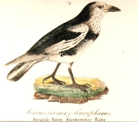 Plate S2-2, figure 2 from Icones ornithologiae scandinavicae, (1851-56) by Niels Kjærbølling.